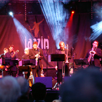 Jazz festival in Cheverny. Music sounds from the center of the village to the castle or the golf. Almost 30 shows in 3 days.